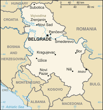 CIA World Factbook map of Serbia without Kosovo.